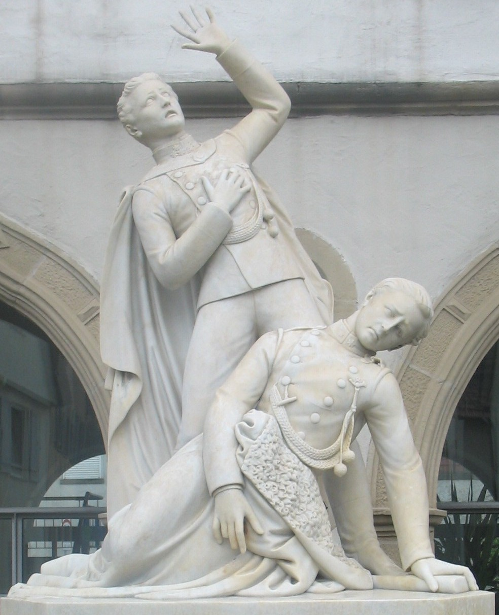 Memorial of the brothers Erich und Axel, Count Taube, who died in the battle of Villiers on December 2, 1870. The memorial is located in Pleidelsheim, Germany, in front of the old town hall. The artist was Ludwig von Hofer (1801 - 1887)